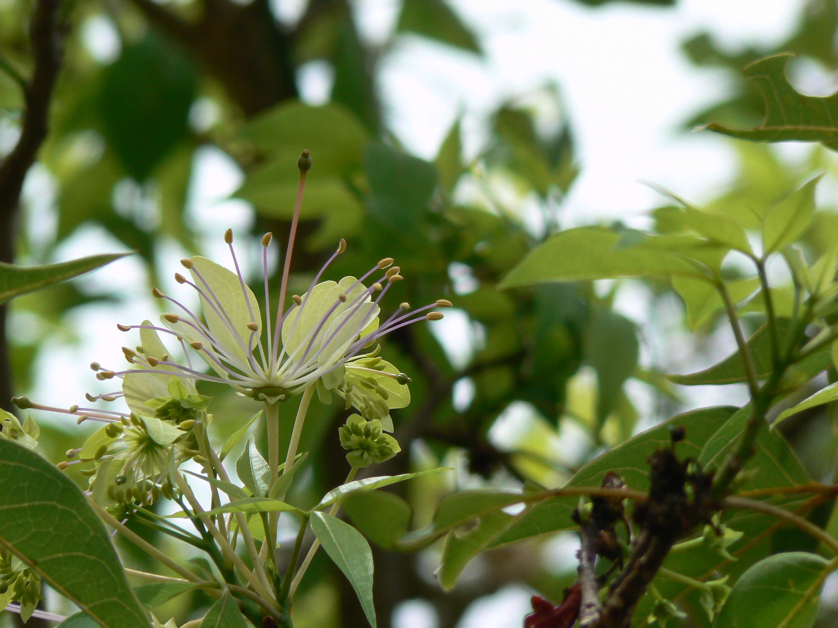 Capparaceae (caper family) » Crateva religiosa KRAY-tev-a -- named for Kratevas, Greek herbalist, renowned for his skill in poisoning re-lij-ee-OH-suh -- meaning, sacred commonly known as: garlic pear, obtuse leaf crateva, spider tree, temple plant, three-leaf caper • Bengali: বরুণ baruna • Hindi: बर्ना barna, बर्नी barni • Kannada: nirvala • Malayalam: nir mathalam • Manipuri: loiyumba lei • Marathi: बिल्व bilwa, वरुण varun, वायवरणा vaywaran • Sanskrit: वरण varan, वरुण varun • Tamil: மாவிலிங்கம் marvilingam • Telugu: ఉలిమిడి ulimidi, వరుణ varuna, voolemara Origin: Southeast Asia, Japan, Australia, south Pacific islands ... leaves trifoliate ... flowers white, or cream in many flowered terminal corymbs. References: Flowers of India • Dave's Garden • EcoPort • Wikipedia